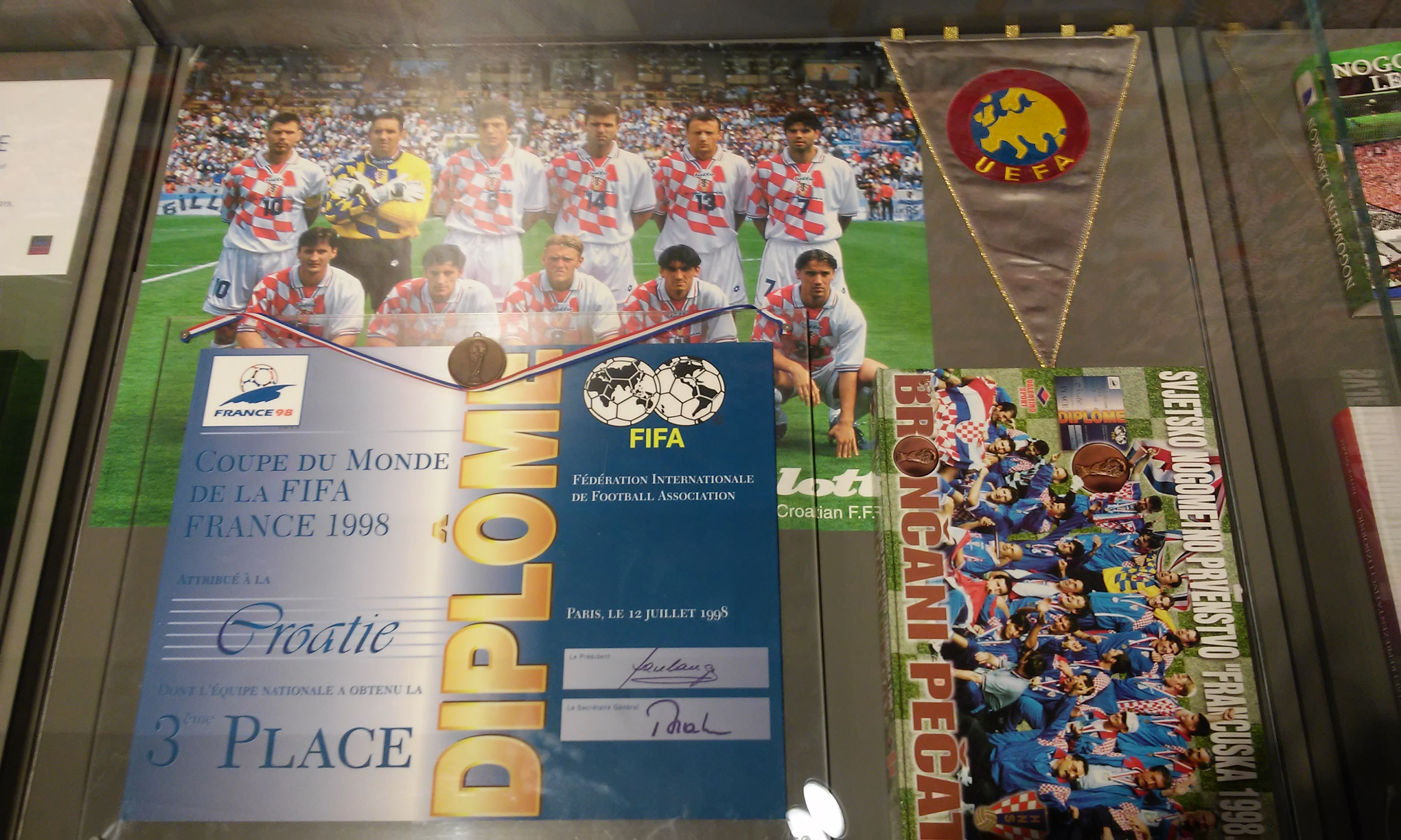 The 1998 Third Place Certificate for Croatia's national football team, Football Museum, Zagreb, Croatia.